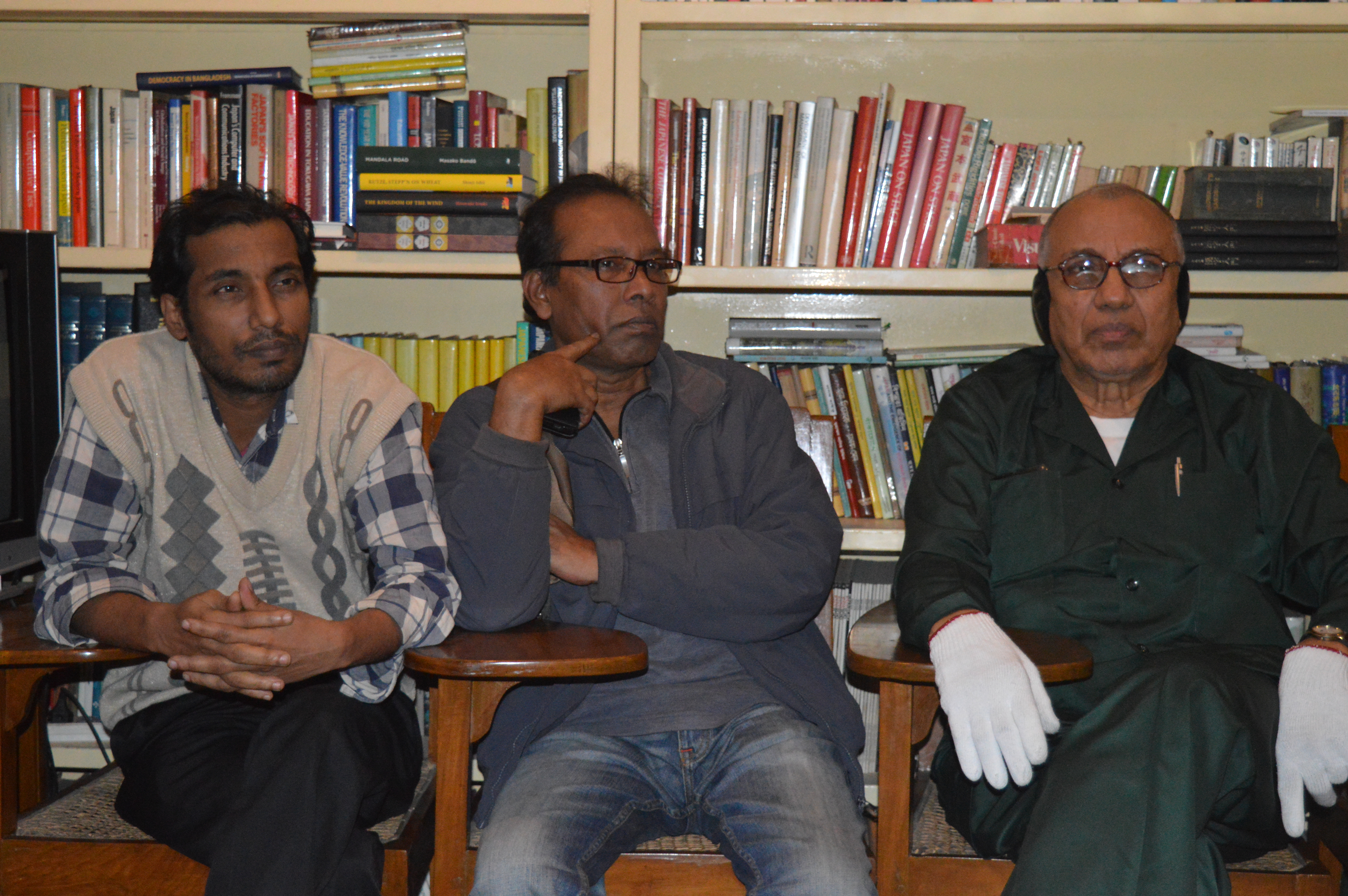 Shobuj Taposh, Hafiz Rashid Khan & Muhammad Nurul Islam at BNWIKI12 celebration in Chittagong